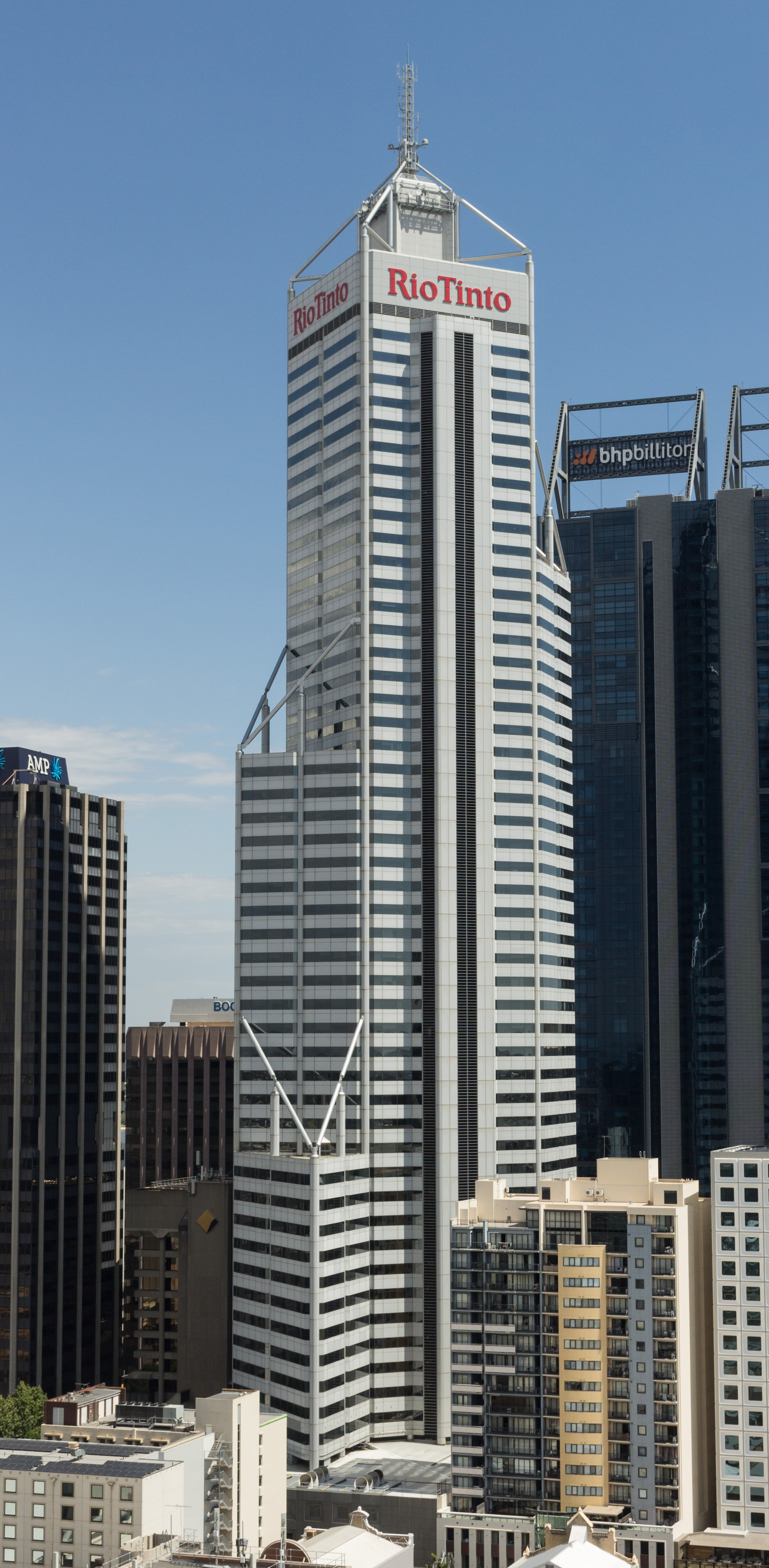 Central Park (skyscraper) photographed from KS1 (556 Wellington St).